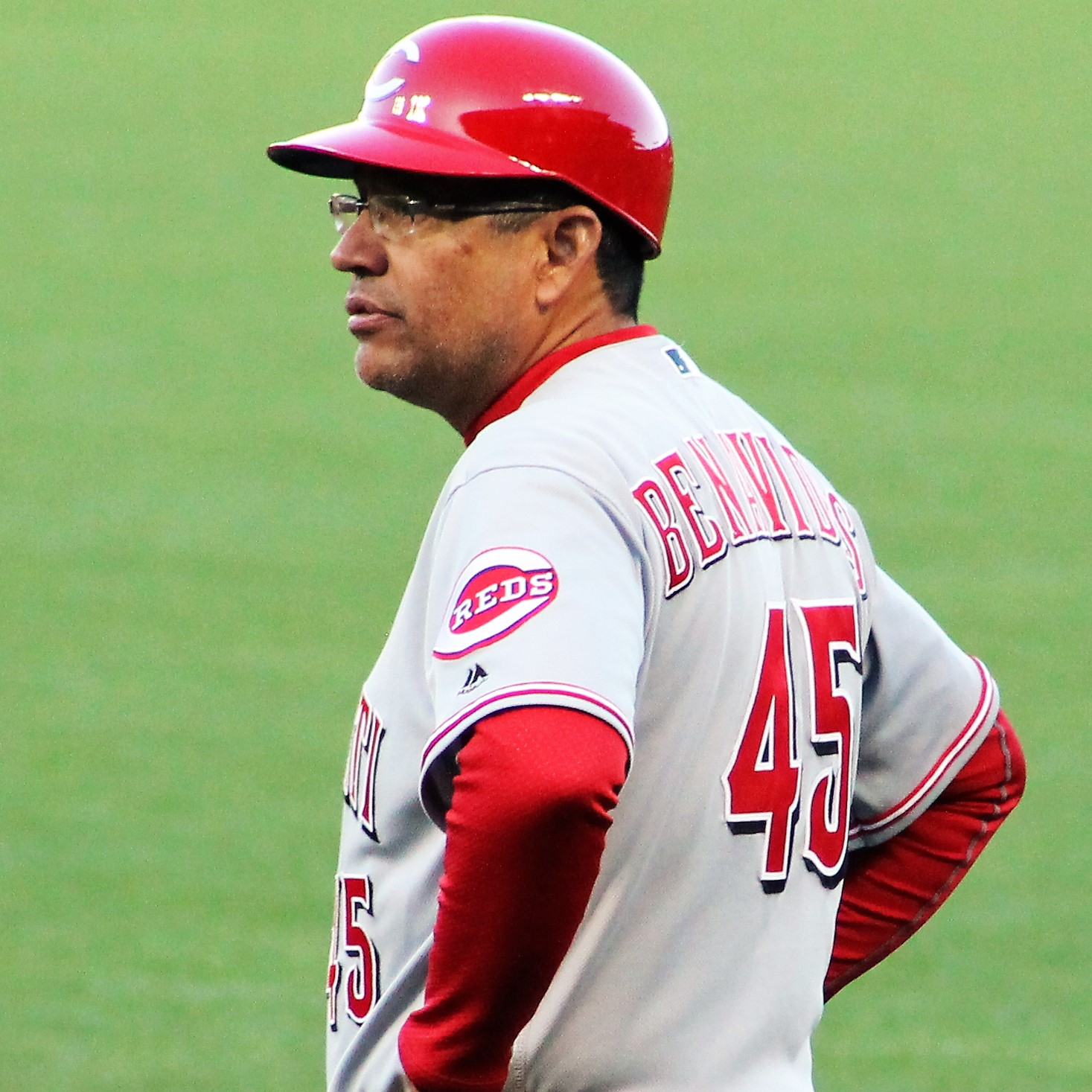 Professional baseball coach Freddie Benavides during a May 2017 in San Francisco.